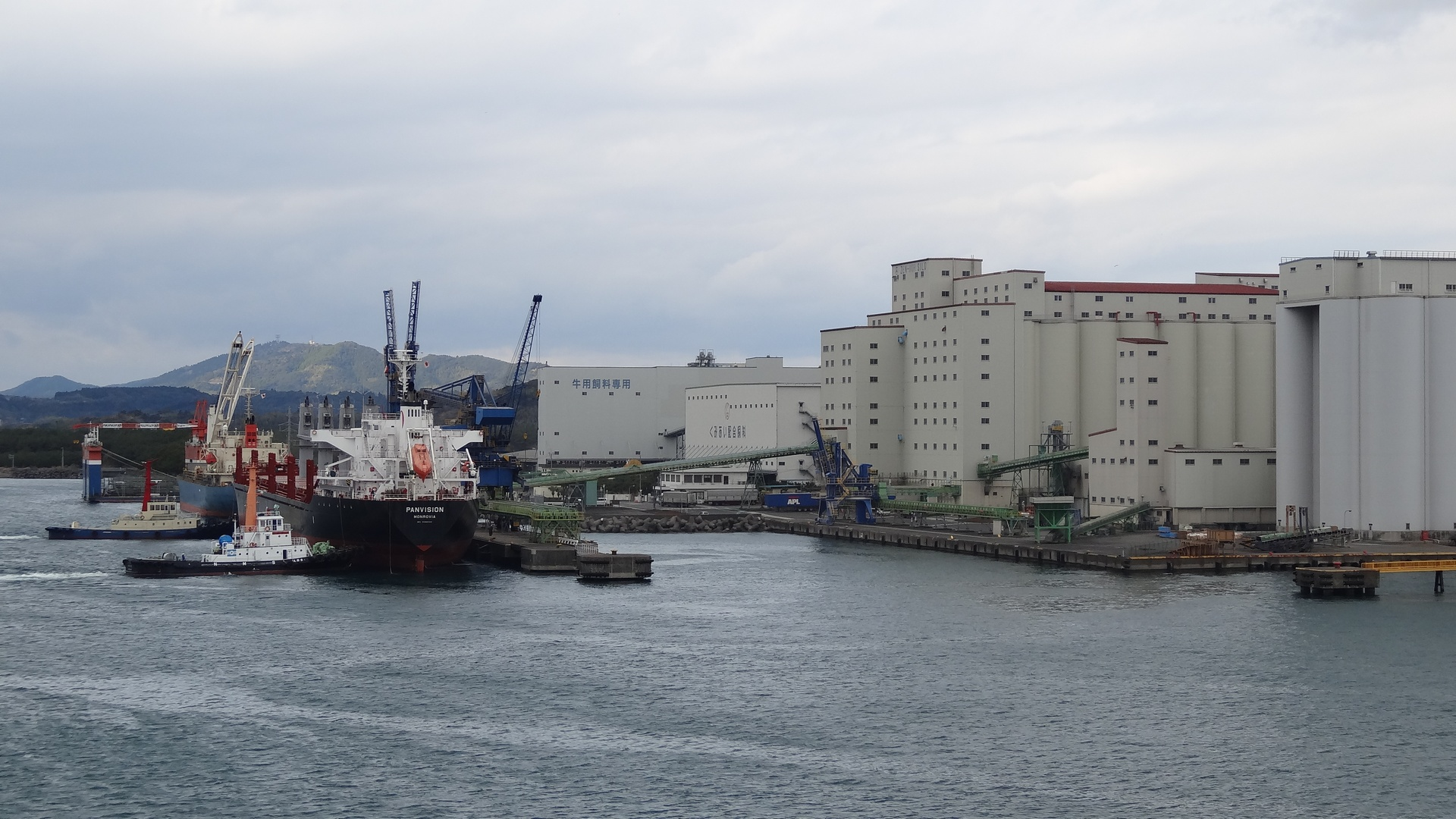 The Port of Shibushi - Wakahama Area in Shibushi City, Kagoshima Prefecture, Japan)